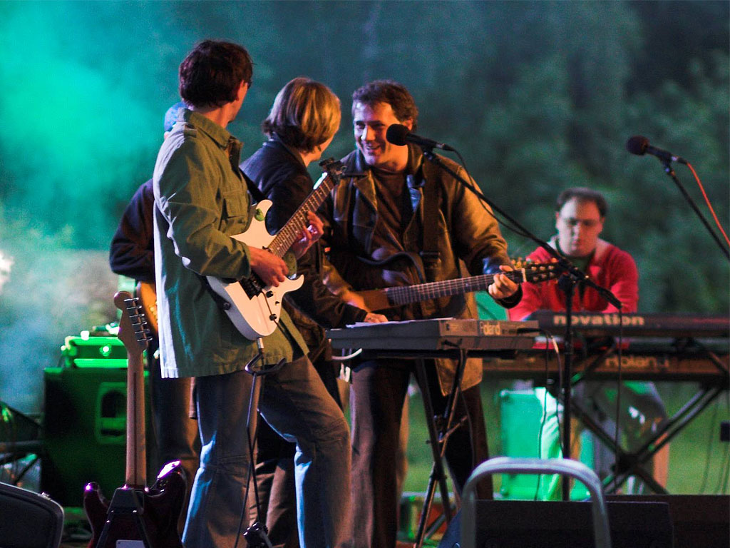 Koncert Universe